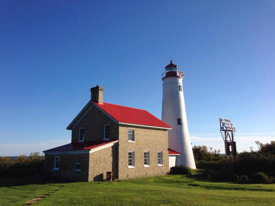 Meteorological station at Thunder Bay Island, Lake Huron. September 18, 2014. Credit: NOAA